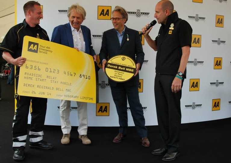 Derek Bell being presented with Honorary Life membership of the AA, in recognition of his 50 years in motorsport, at the 2014 Goodwood Festival of Speed.